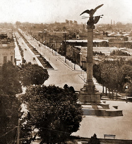 This is a photo of the Italia Square of La Plata, before 1952.